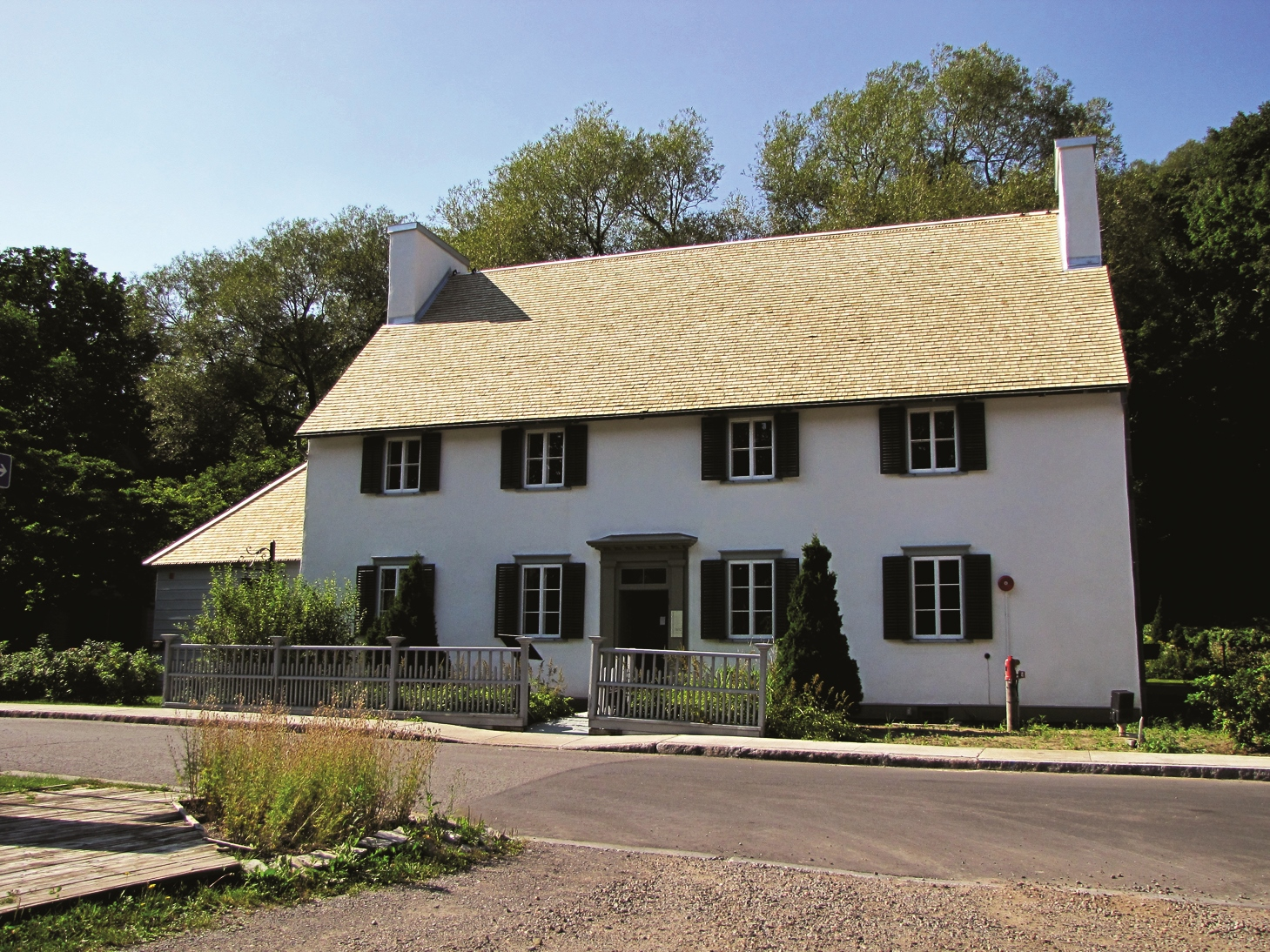 2320 Chemin du Foulon, Quebec City, Canada, Jesuit House of Sillery, classified as a heritage cultural asset in 1929.